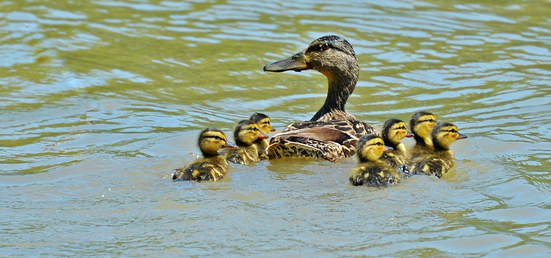 Female mallard (Anas platyrhynchos) with ducklings on the Humber river in Toronto